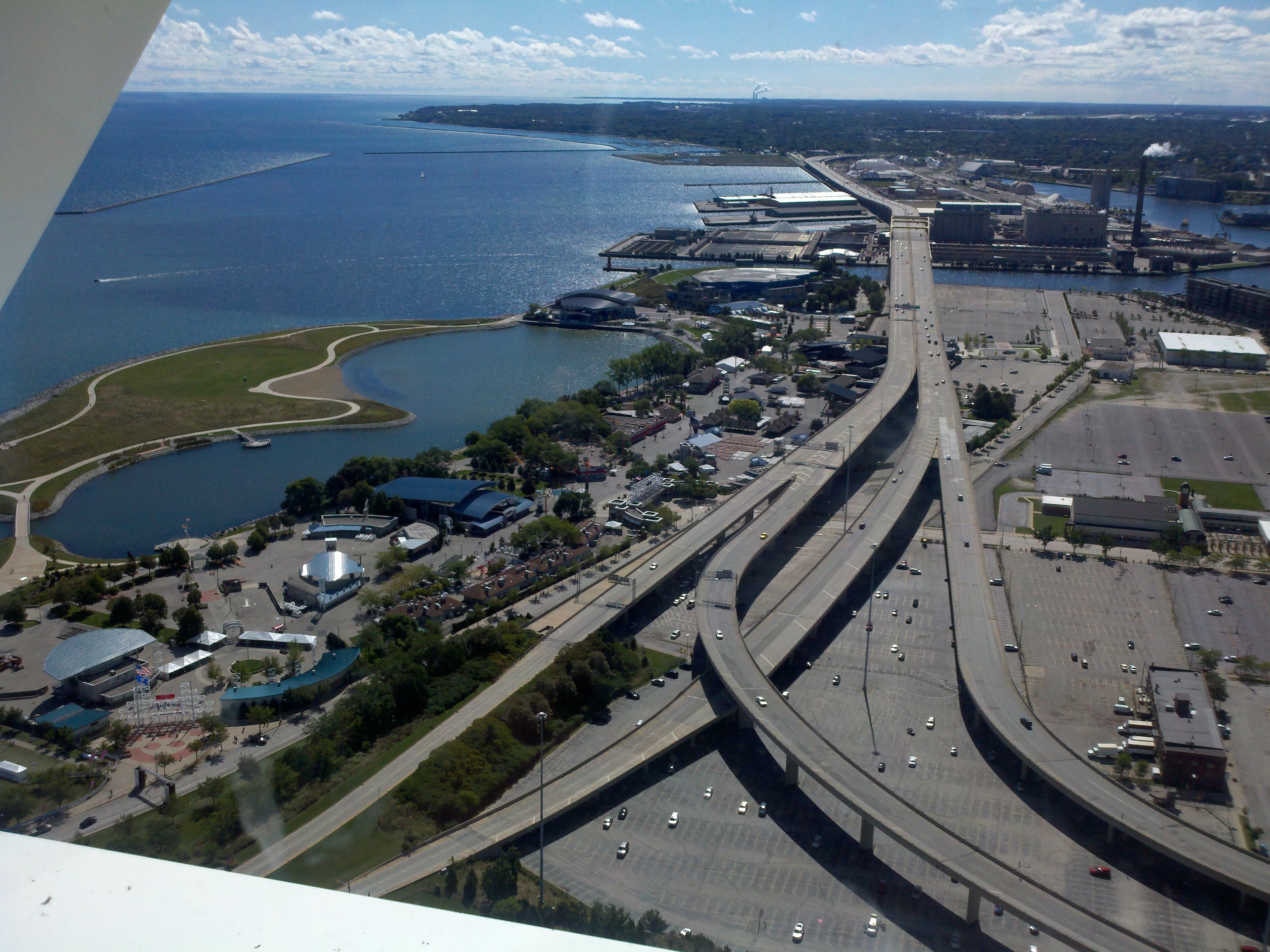 Henry Maier Park with 12 scenes where most Milwaukee festivals are held, including Summerfest